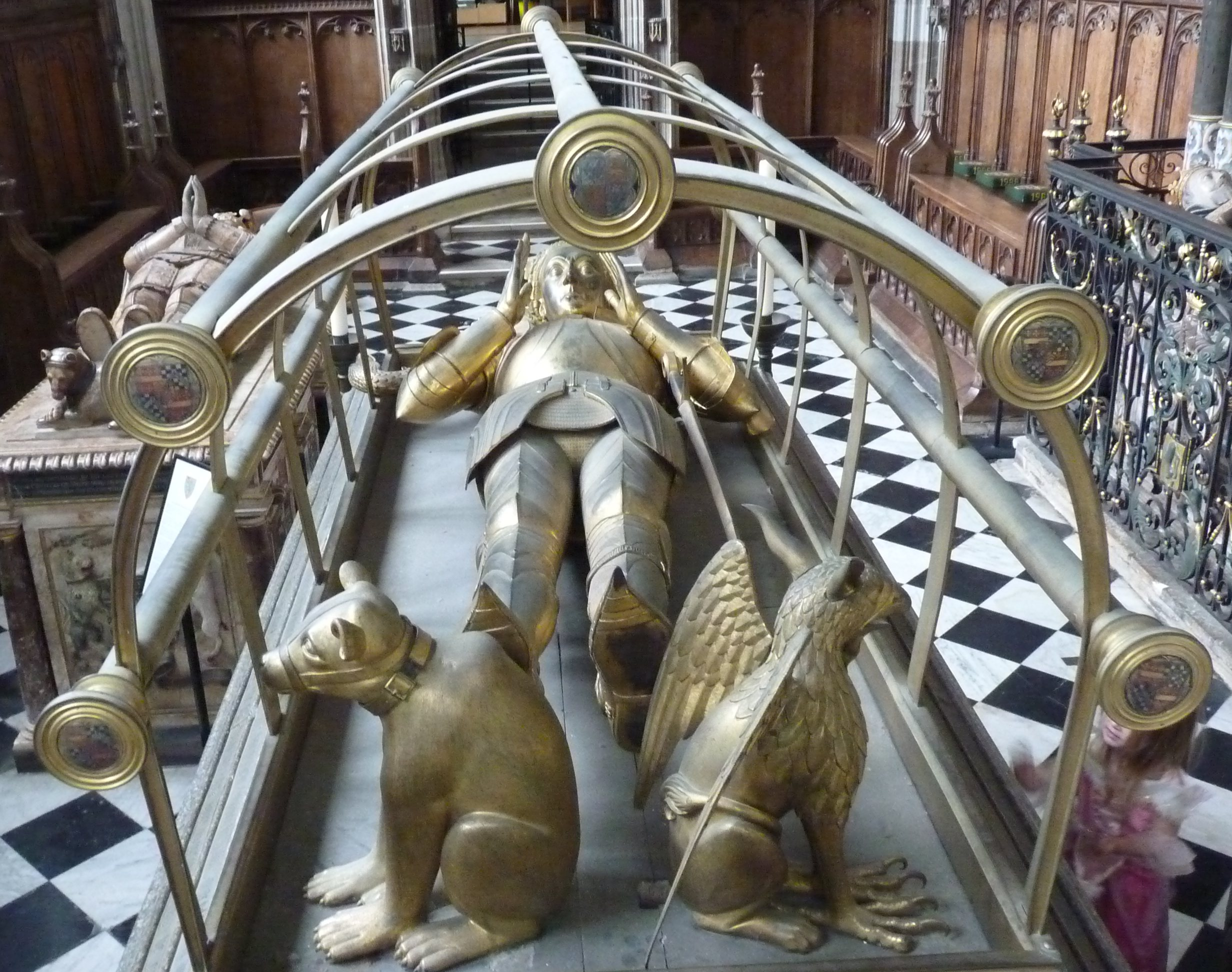 Gilded bronze effigy of Richard de Beauchamp, 13th Earl of Warwick (1382–1439) in the Beauchamp Chapel of the Collegiate church of St Mary, Warwick, England